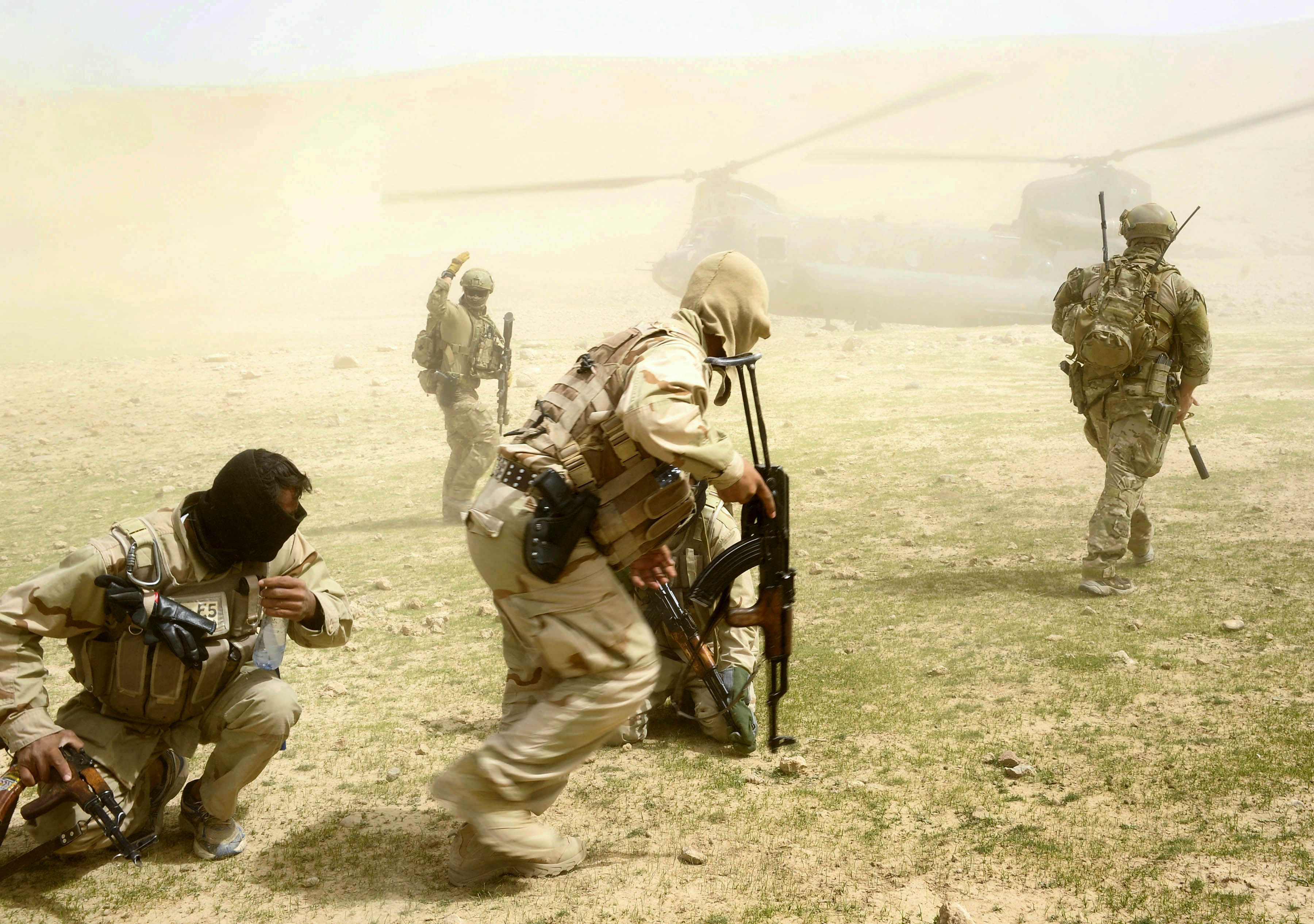 Soldiers from the Afghan National Army and 2nd Commando Regiment, Australian Special Operations Command, pick up from their security positions and head to a CH-47 Chinook helicopter assigned to 1st Battalion, 2nd Aviation Regiment from Fort Carson, Colo., attached to the 25th Combat Aviation Brigade, after completing a mission in the Uruzgan province, Afghanistan, March 26.